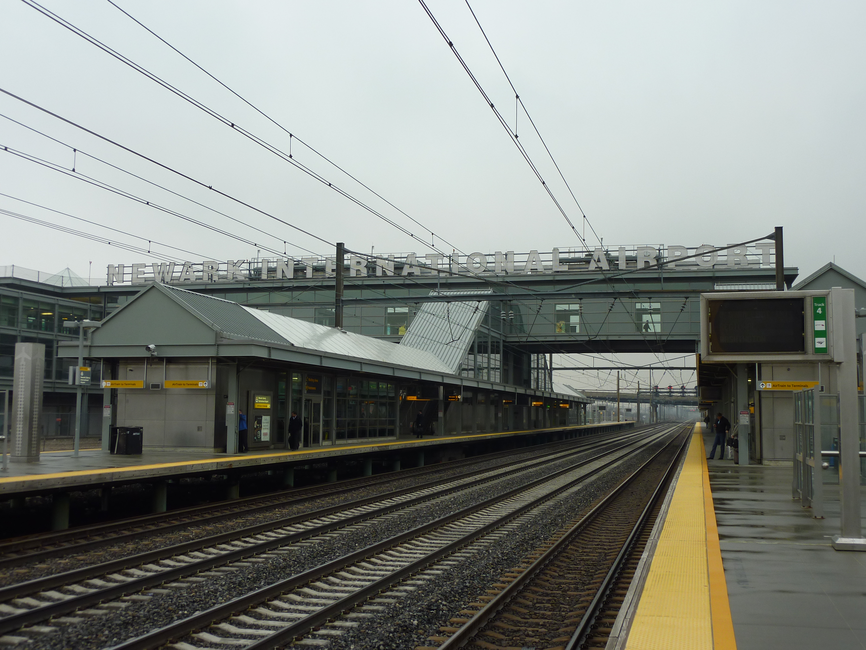 Railway station Newark International Airport, New Jersey, USA